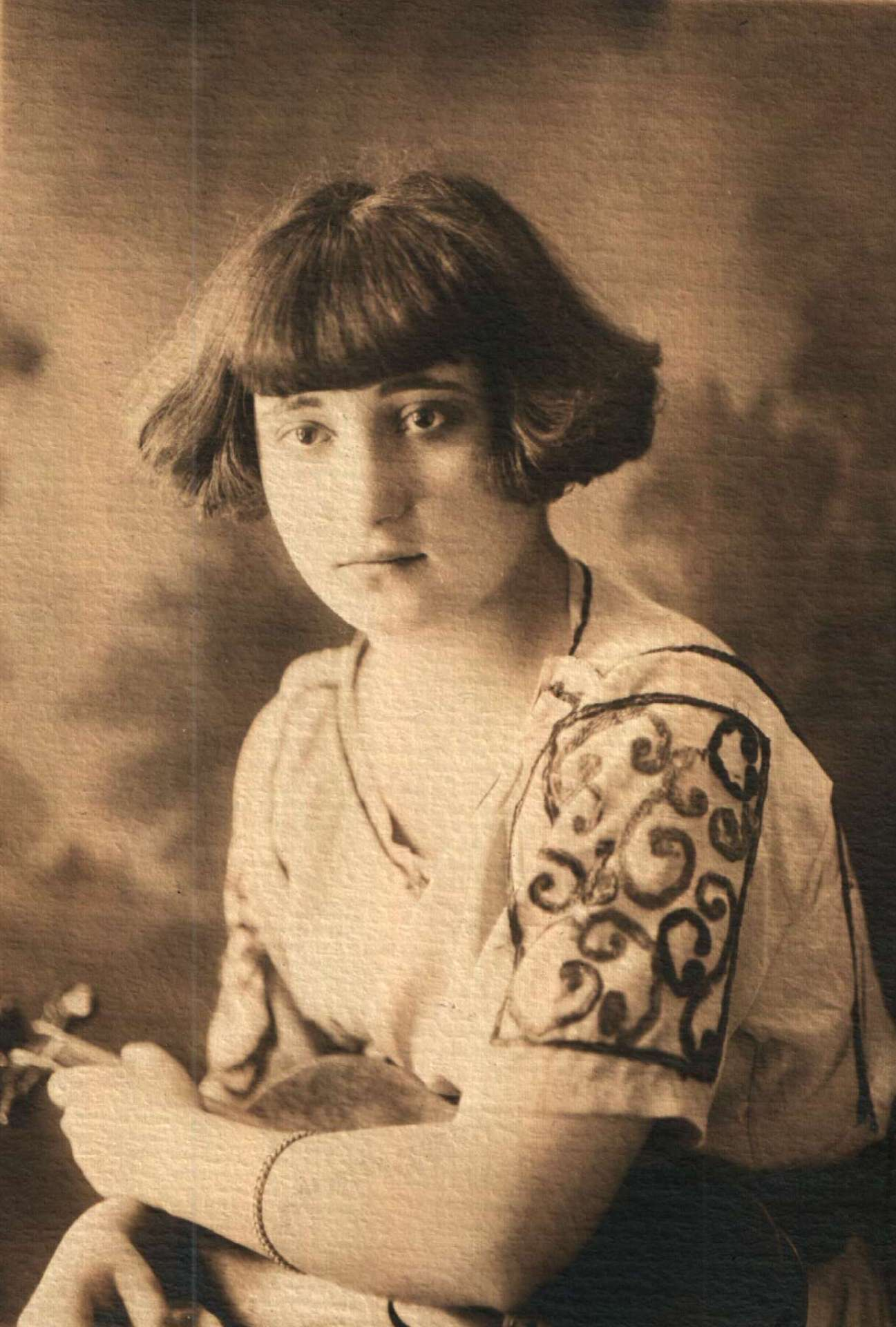 Bulgarian violinist Nedyalka Simeonova (1901-1959)